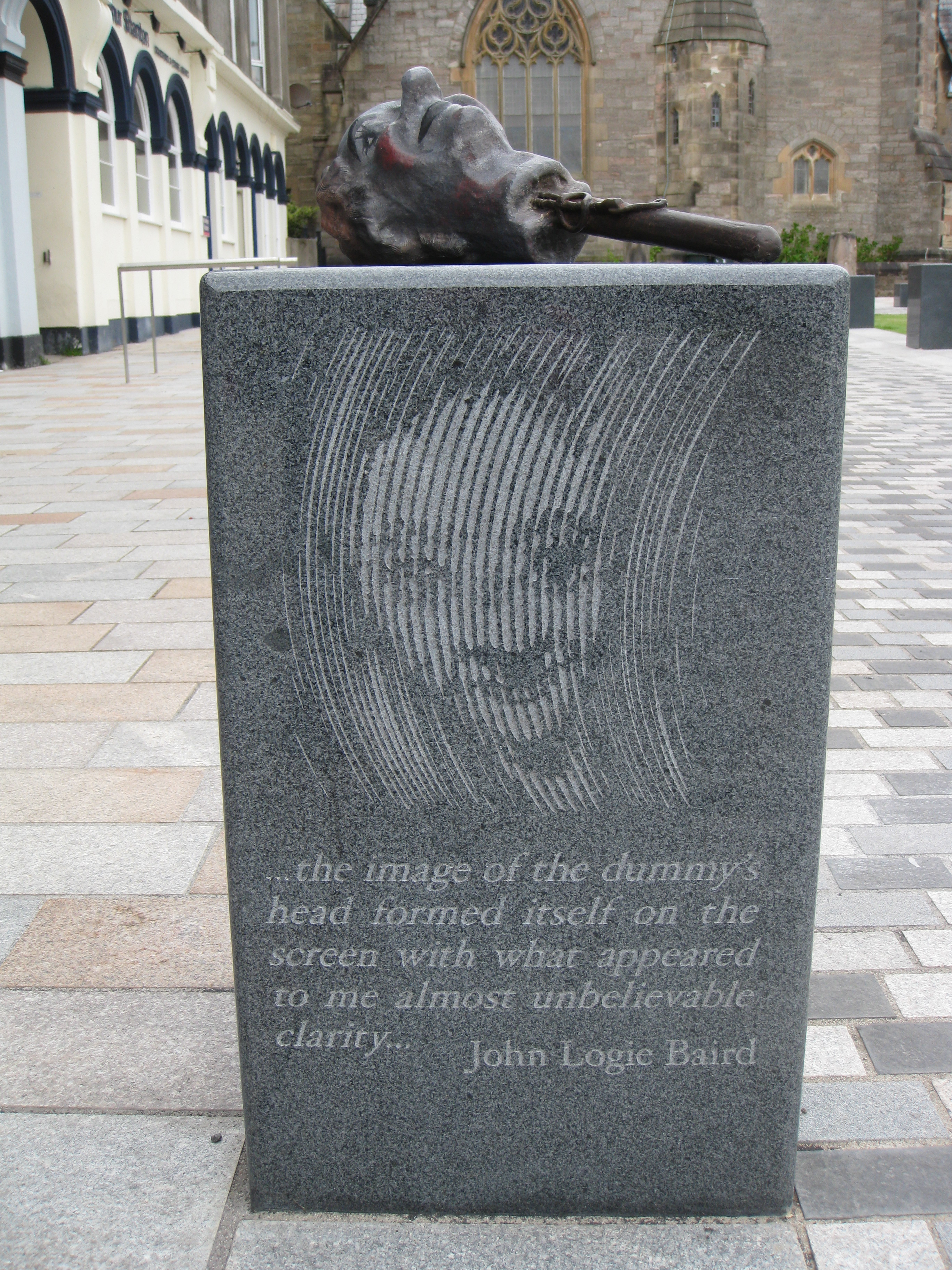 Replica of Stooky Bill, John Logie Baird's puppet, in the Outdoor Museum